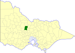 Location of the Rural City of Marong within Victoria.